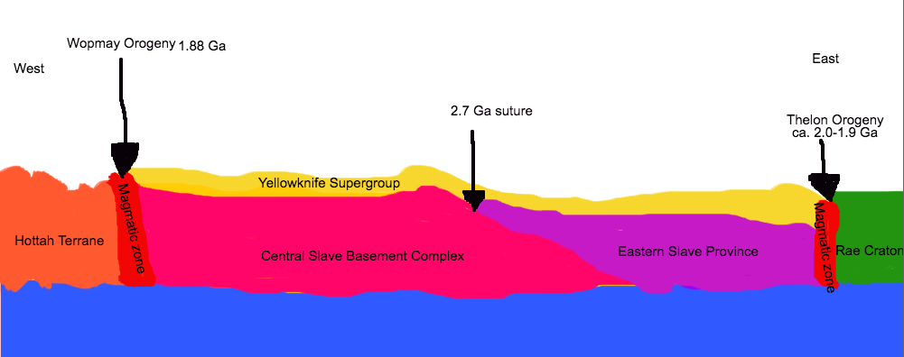 An E-W cross-section of the Slave Craton highlighting its basic stratigraphy and margins.